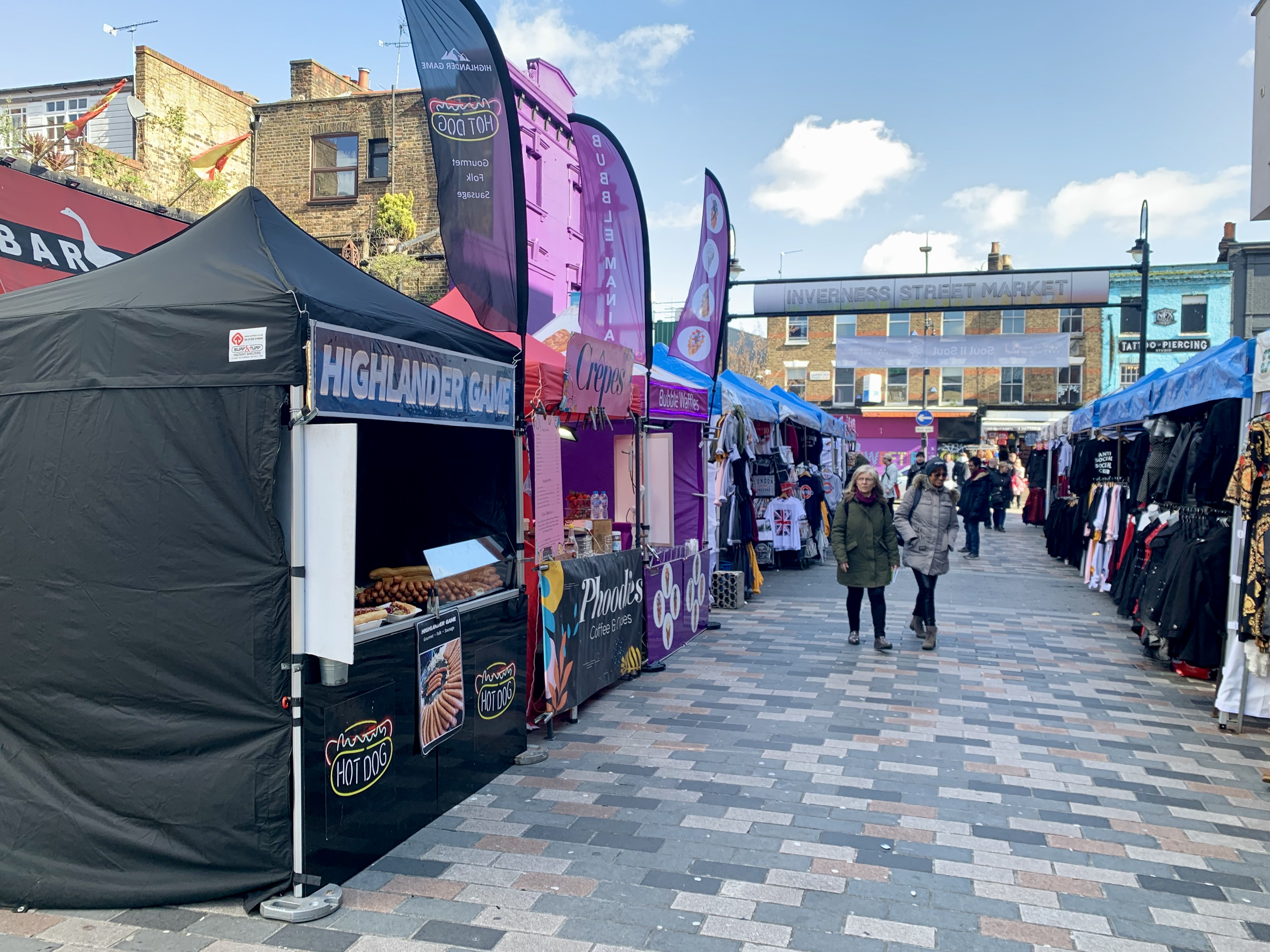 Inverness Street Market towards Camden High Street on the day of Soul II Soul’s Camden Music Walk of Fame stone laying.